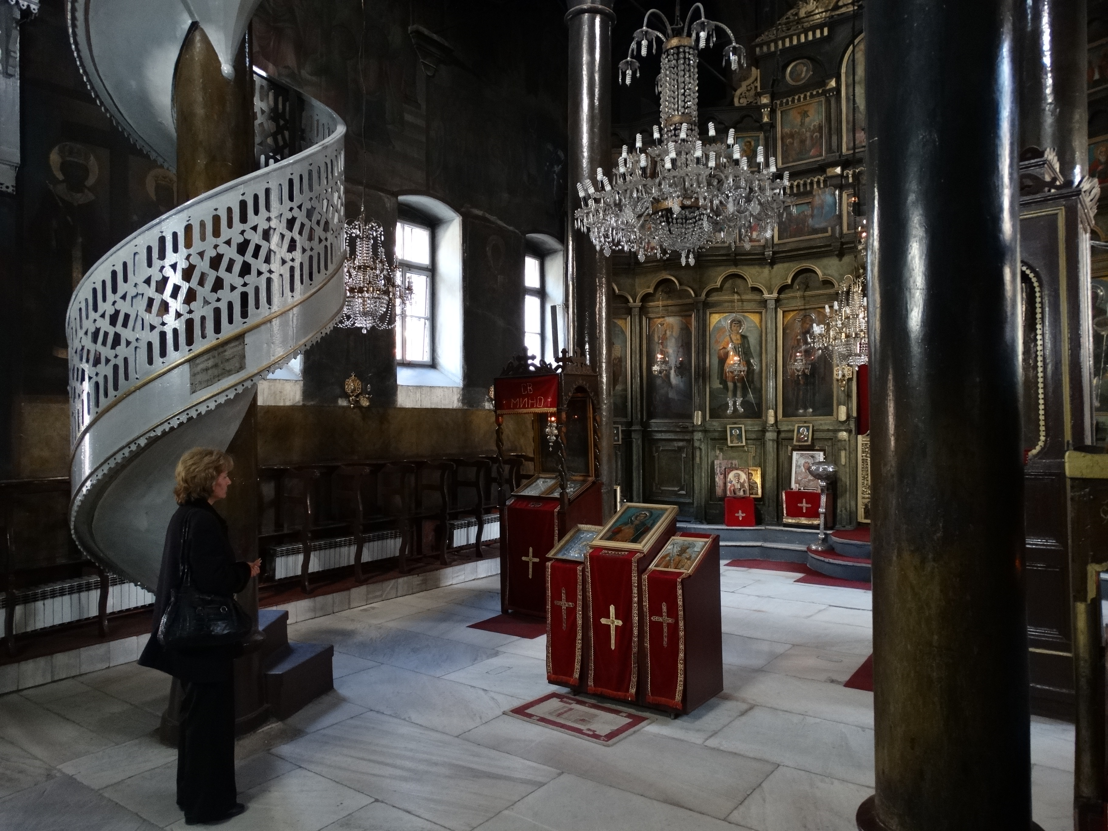 Interior of Sveti Dimitrija Orthodox Church